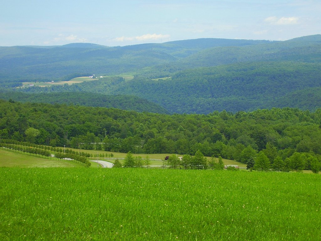 Laurel Ridge as viewed from Kentuck Knob.